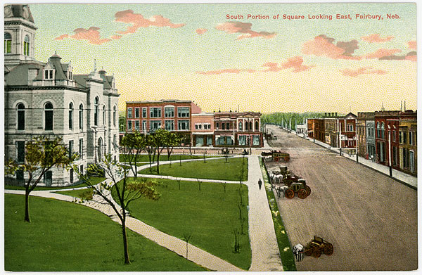 early postcard